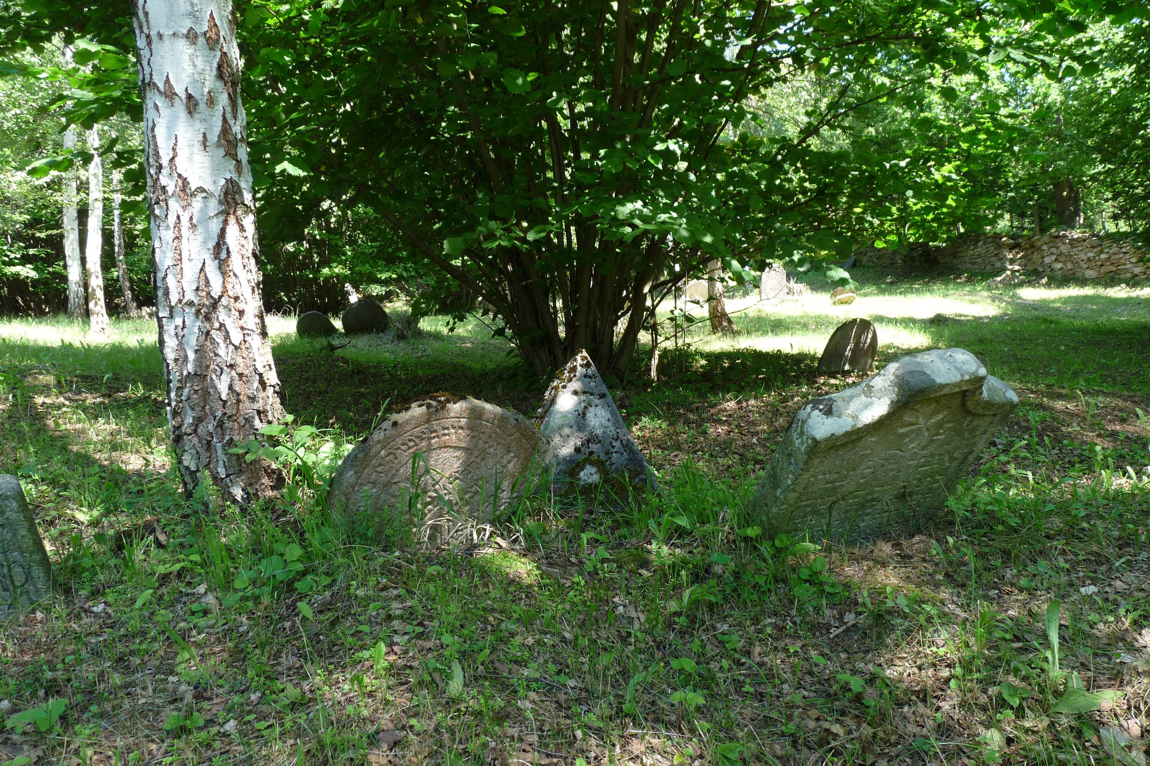 Jewish cemetery by the municipality of Podmokly, Klatovy District, Plzeň Region, Czech Republic